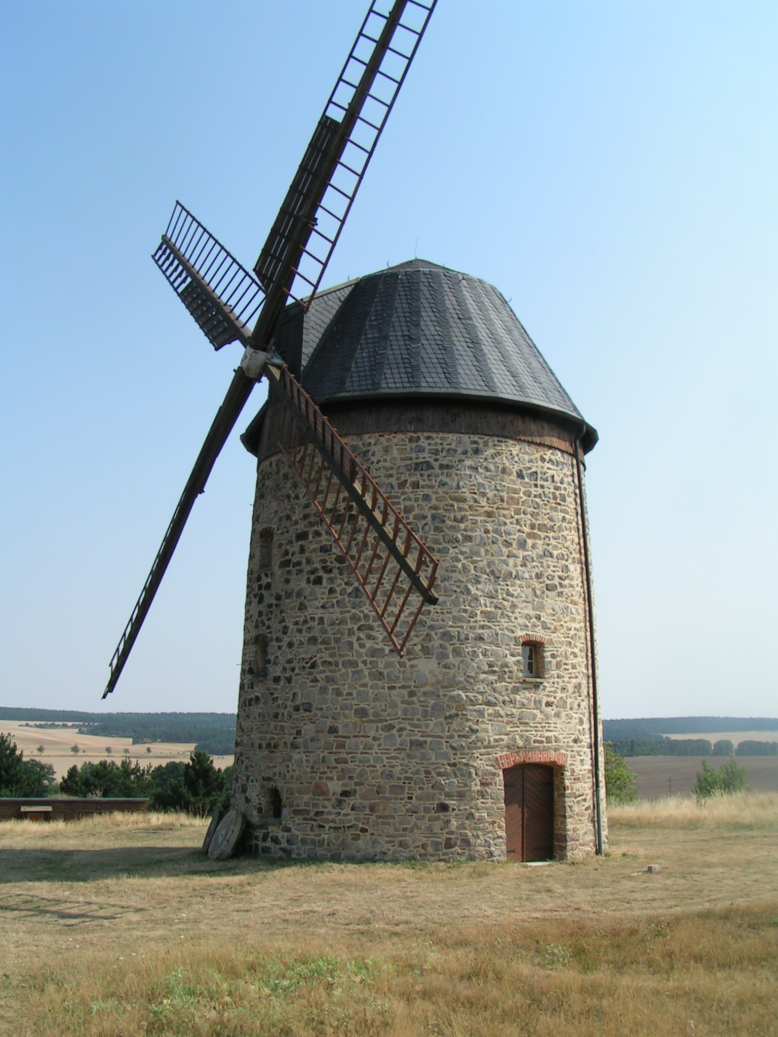 Windmühle Warnstedt